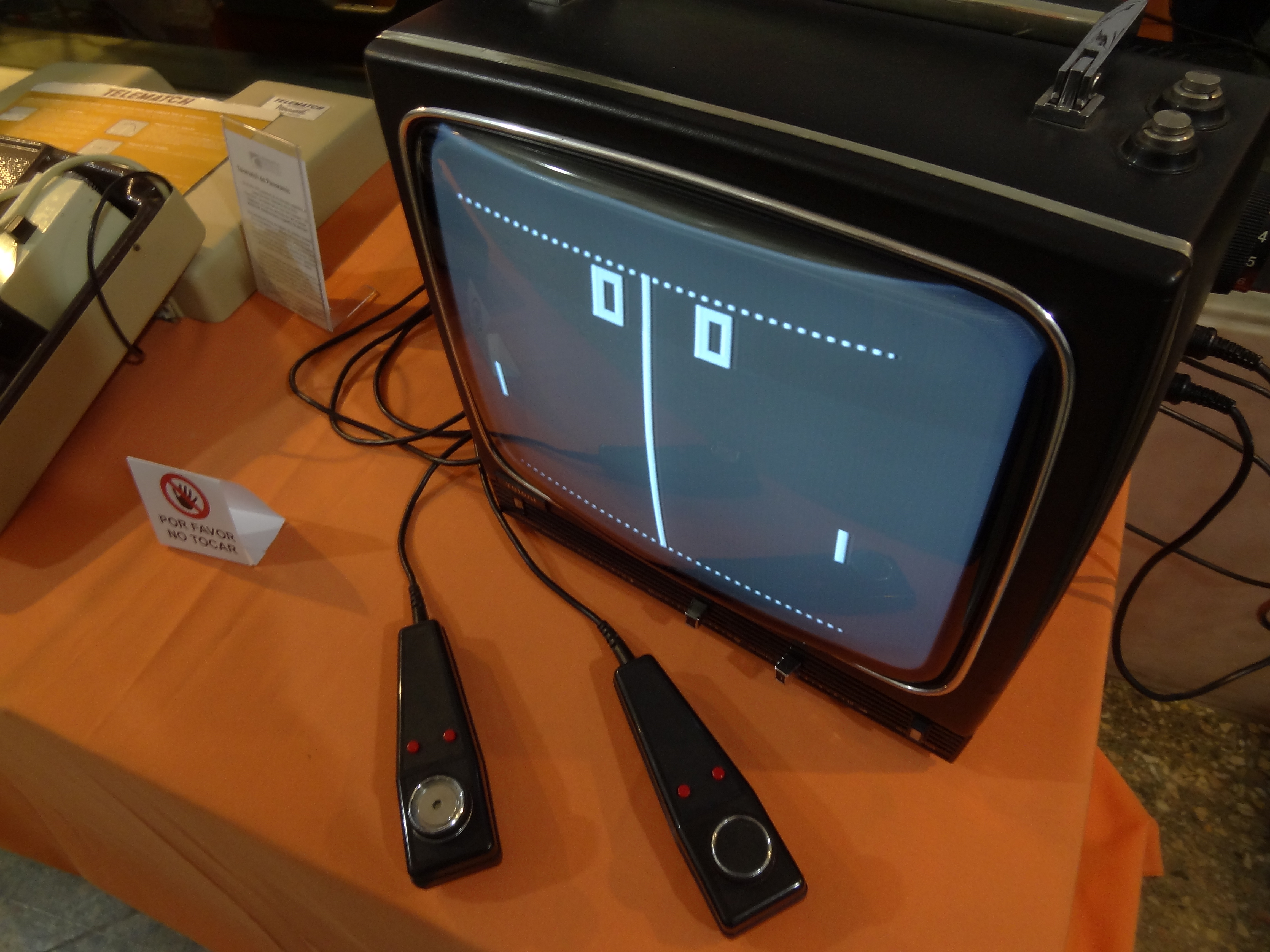 Talent TV and Pong console in one single unit